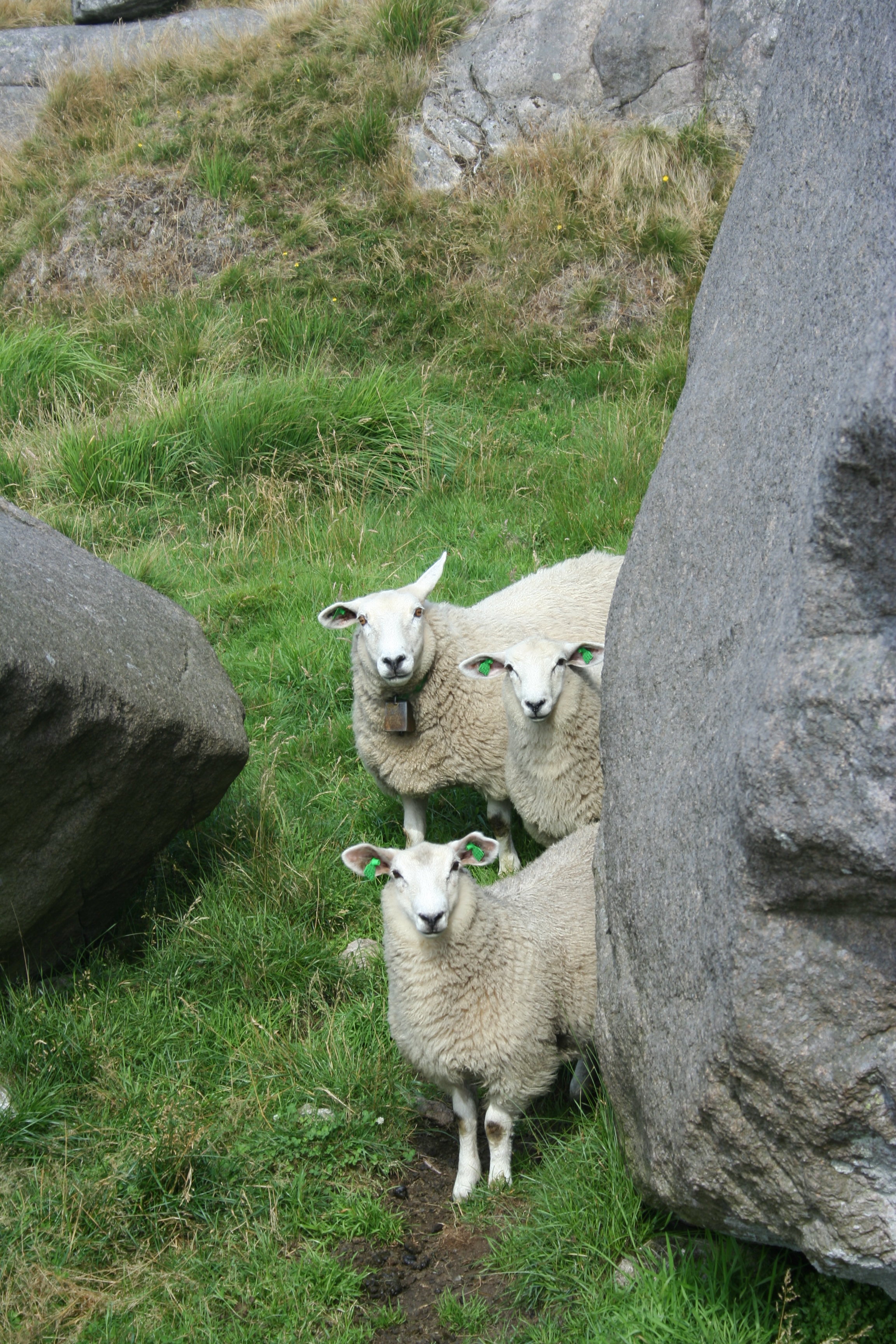 Three sheep near a rock in Southern Norway